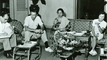 Robert McNamara and his wife Marge visited Jakarta, Indonesia during his tenure as World Bank President, June 1968.